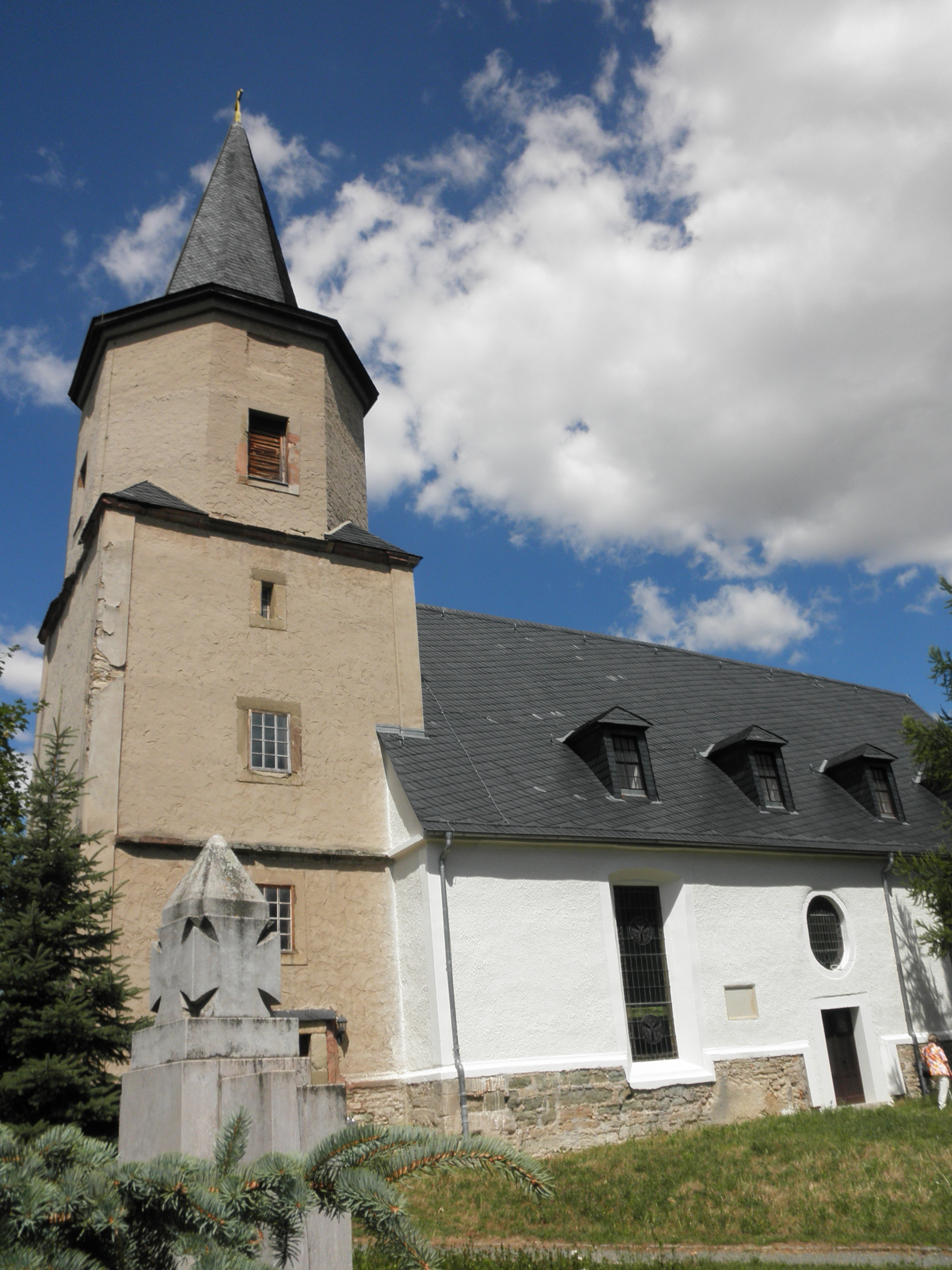 Church in Vippachedelhausen (Thuringia)